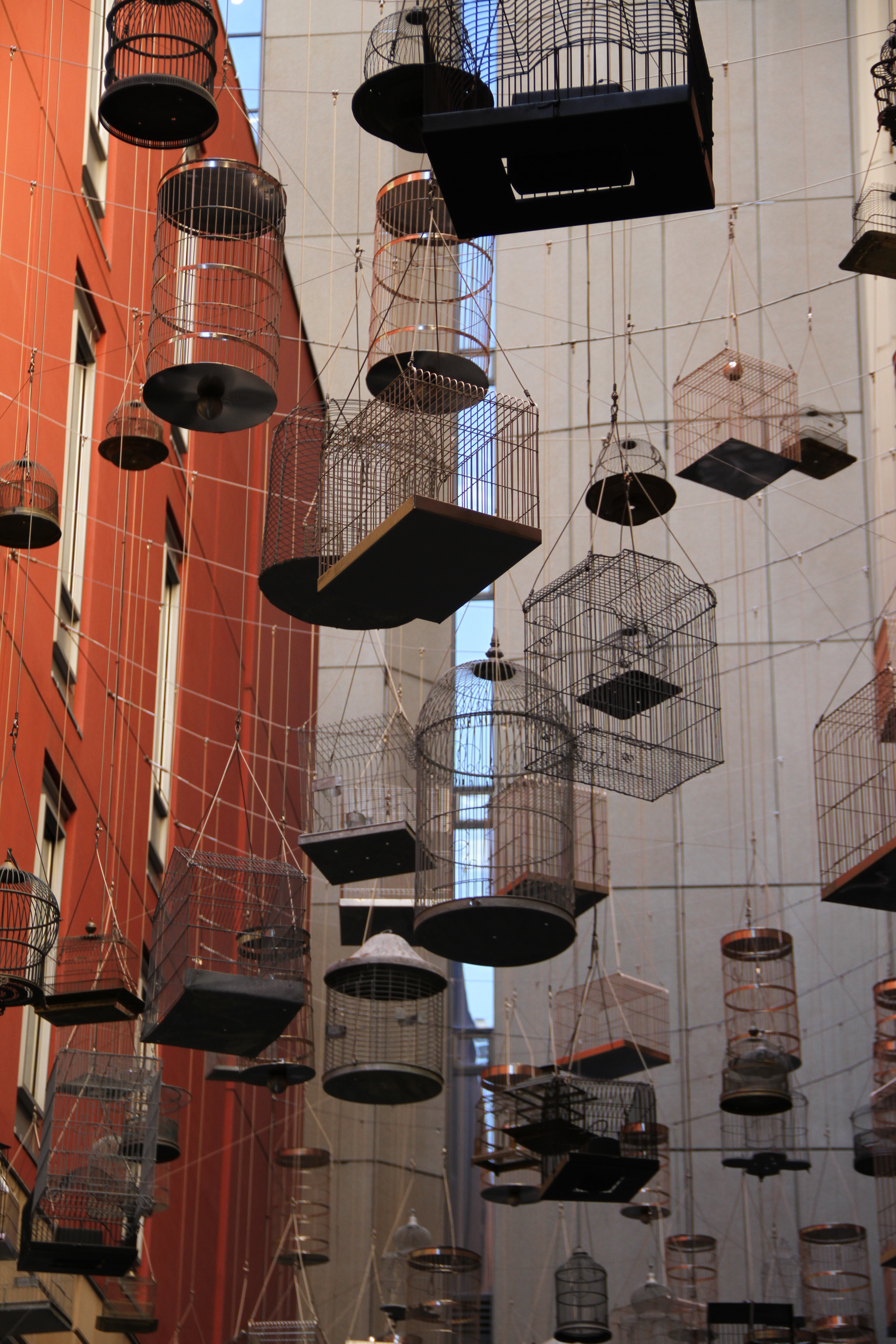 Forgotten Songs Installation, Sydney, Angel Place, the effect of Buildings Warm colours in the Background of 50 Floating Cages